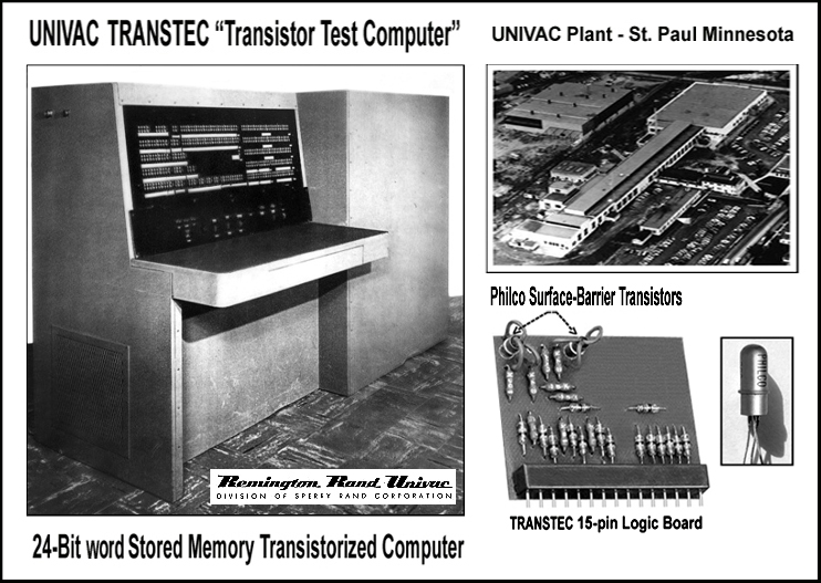 Univac TRANSTEC "Test" transistorized computer had used Philco surface-barrier transistors in its circuitry. The United States Air Force had contracted with Univac to research and develop a transistorized computer.